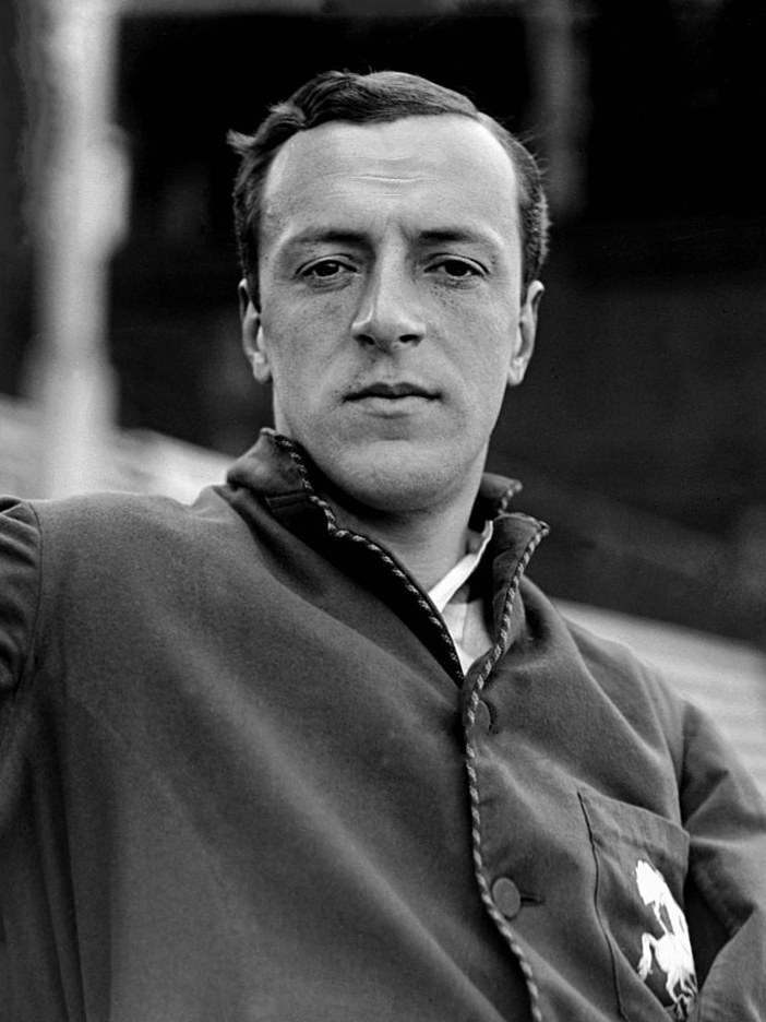 Bernard Bosanquet by George W Beldam